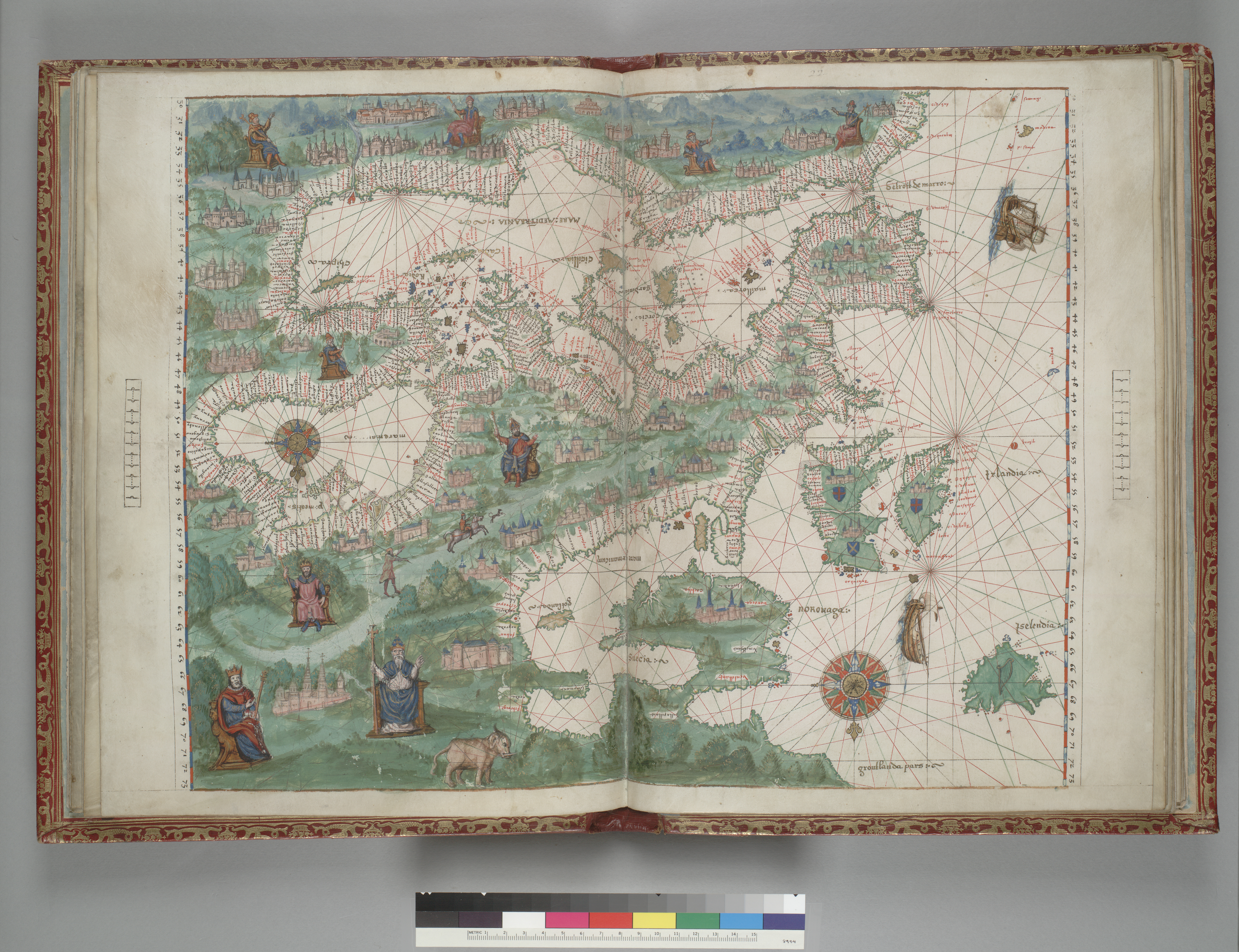 Europe and northern Africa. HM 29 “Vallard Atlas”. PORTOLAN ATLAS Italy, 16th century Call Number: HM 29 Folio: f. 10 Description: Europe and northern Africa.